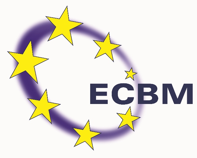 Logo ECBM